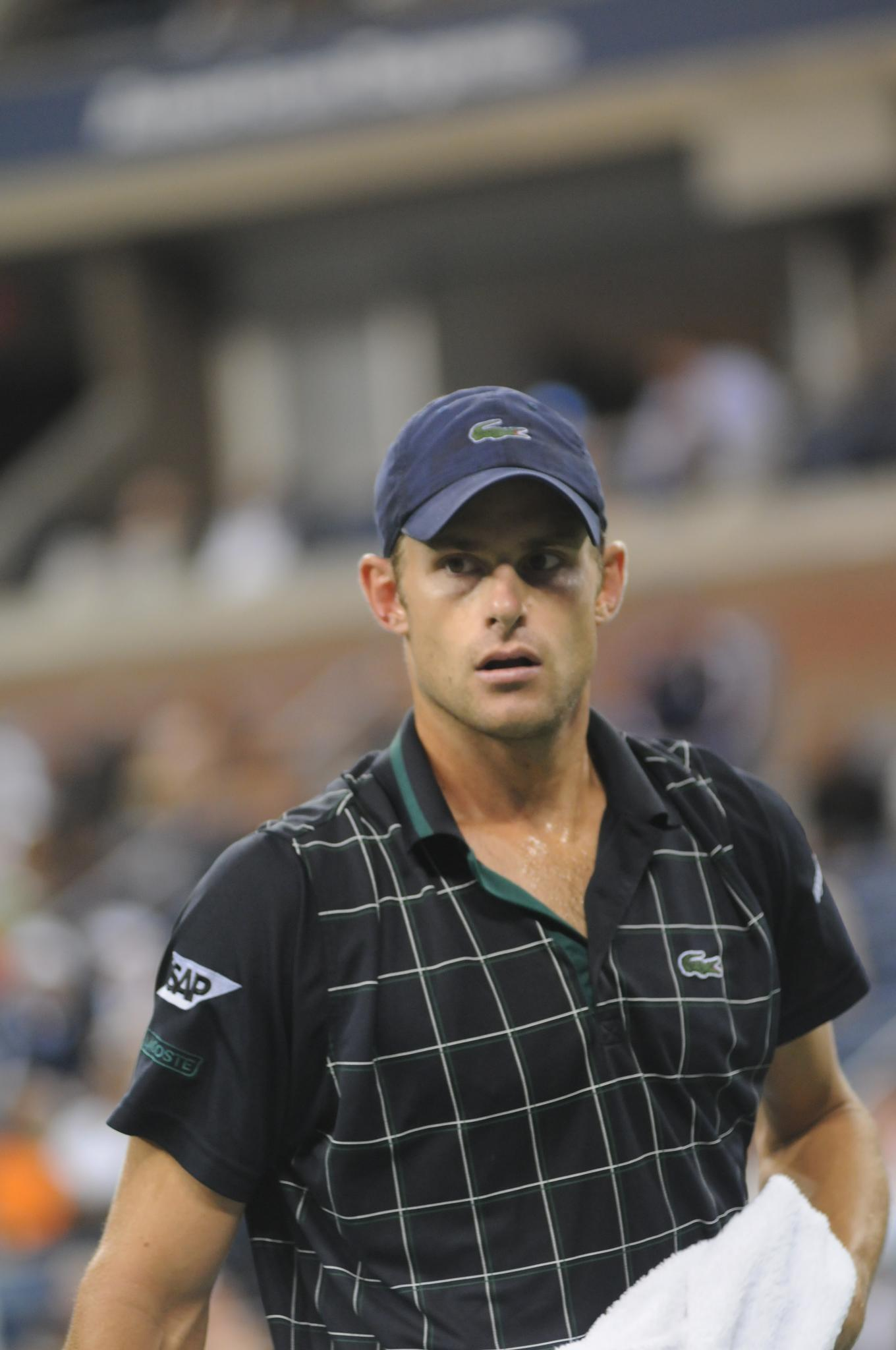 Andy Roddick at the 2009 US Open